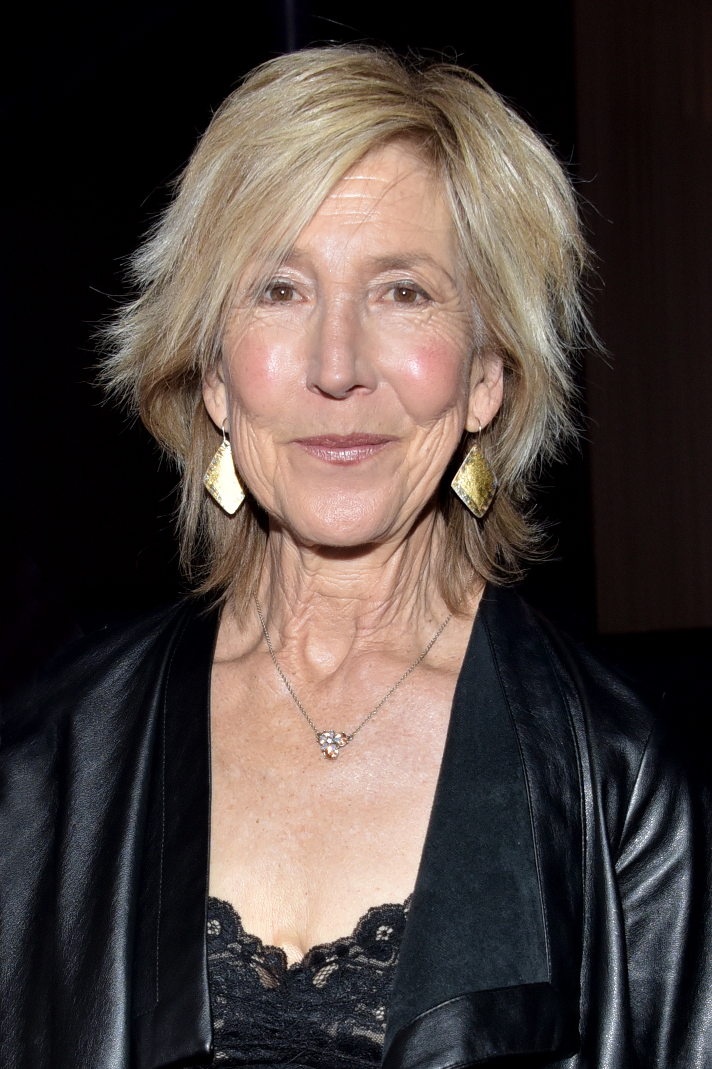 Lin Shaye, Beverly Hills California on April 28, 2017 - Photo by Glenn Francis of